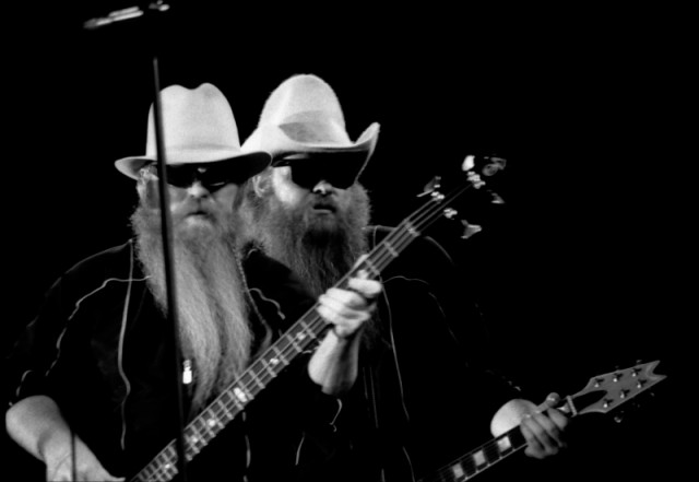 ZZ Top, Drammenshallen, Norway, October 20th 1983